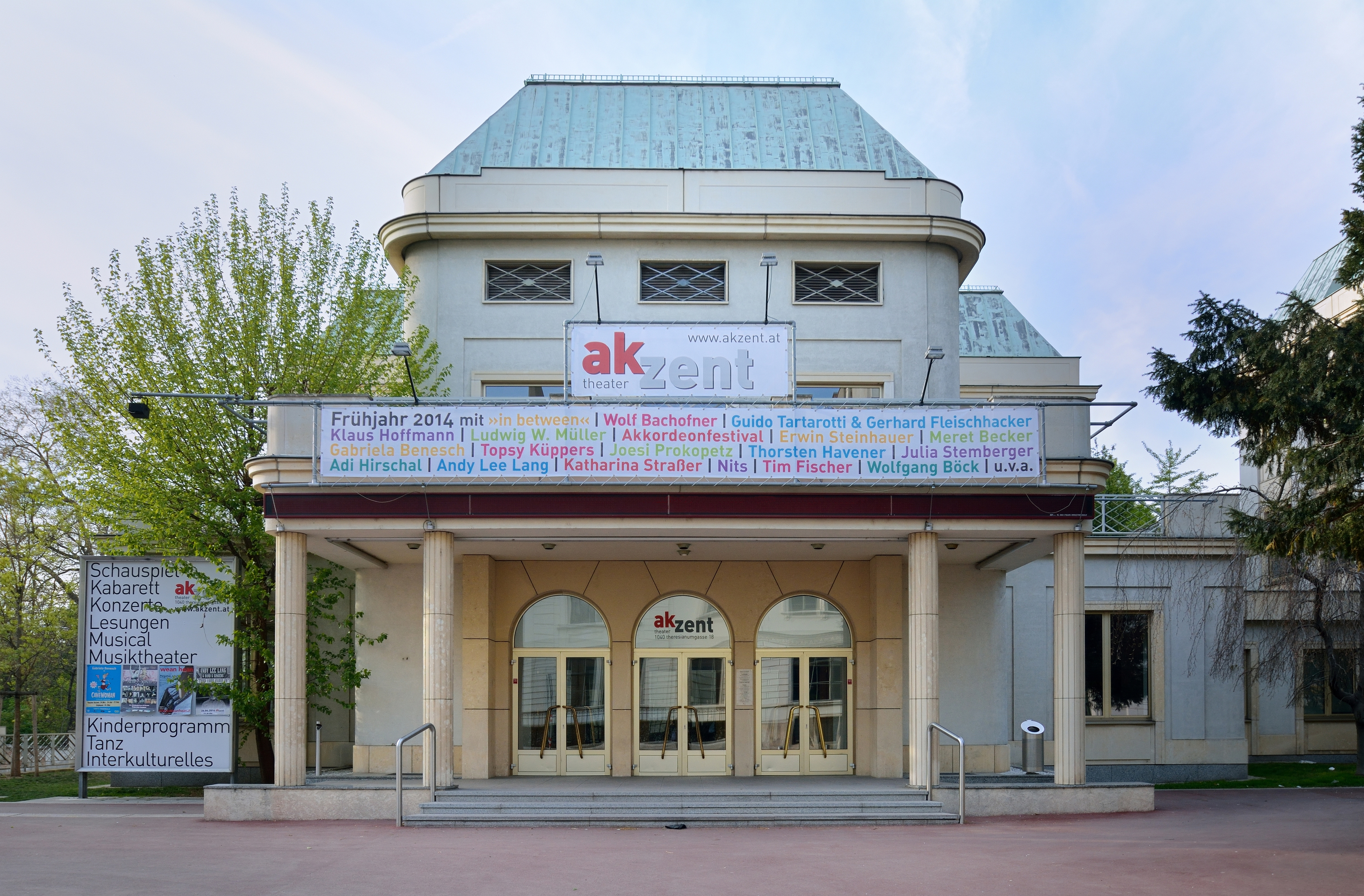 Theater Akzent, Theresianumgasse 18, 4th district of Vienna